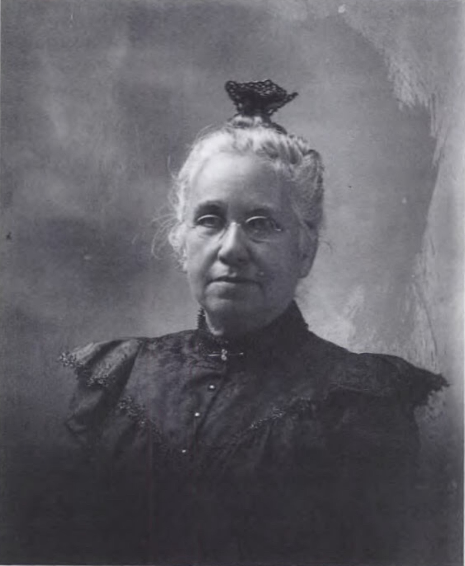 Julia Hope Kamakia Paaikamokalani o Kinau Beckley Fayerweather, a hapa-haole chiefess, her parents were Abram Henry Fayerweather and Mary Kekahimoku Kolimoalani Beckley, daughter of Captain George Beckley and High Chiefess Elizabeth Ahia. She married Chun Afong, with whom she had 16 children: Emmeline, Toney, Nancy, Mary, Julia, Elizabeth, Marie, Henrietta, Alice, Caroline, Helen, Martha, Albert, Melanie, Henry and James.